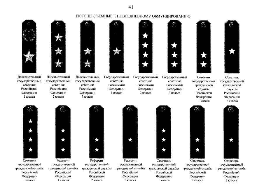 Insignia of class rates of state civil servants in the Ministry of Defense, Russian Federation.